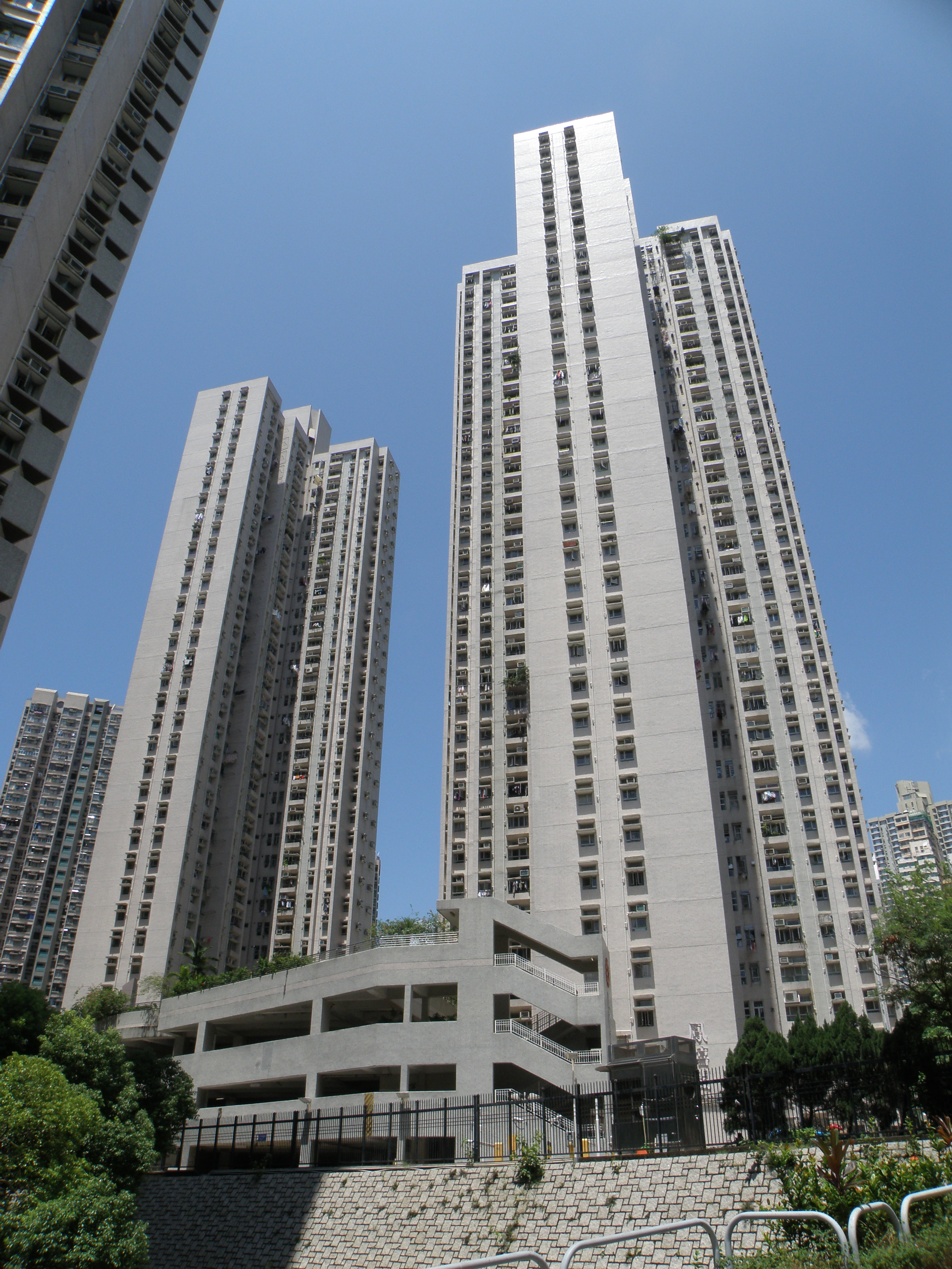 Fung Lai Court in Diamond Hill, Hong Kong.